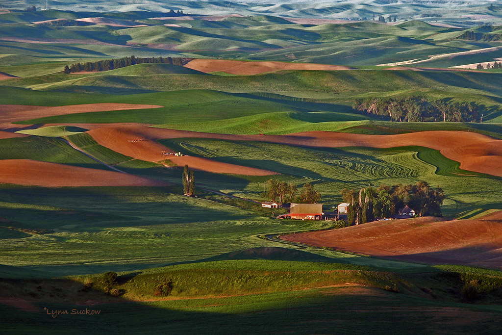 Palouse Hills from Steptoe Butte – We drove up to the top of Steptoe Butte in eastern Washington at 5 in the morning to catch the light and shadow play on the hills.